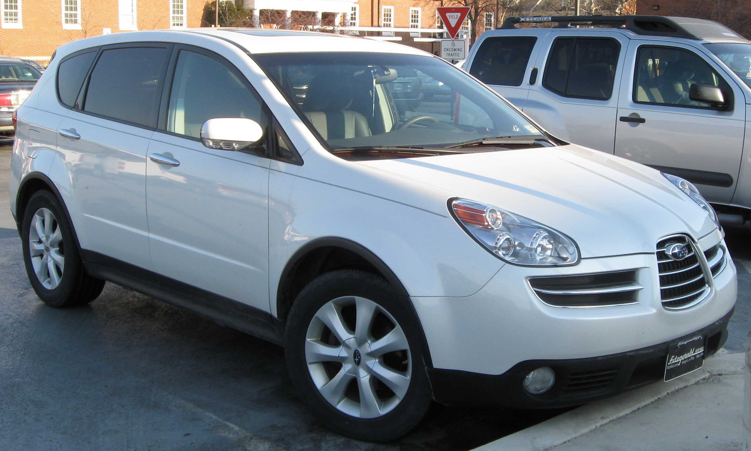 Subaru B9 Tribeca photographed in College Park, Maryland, USA.